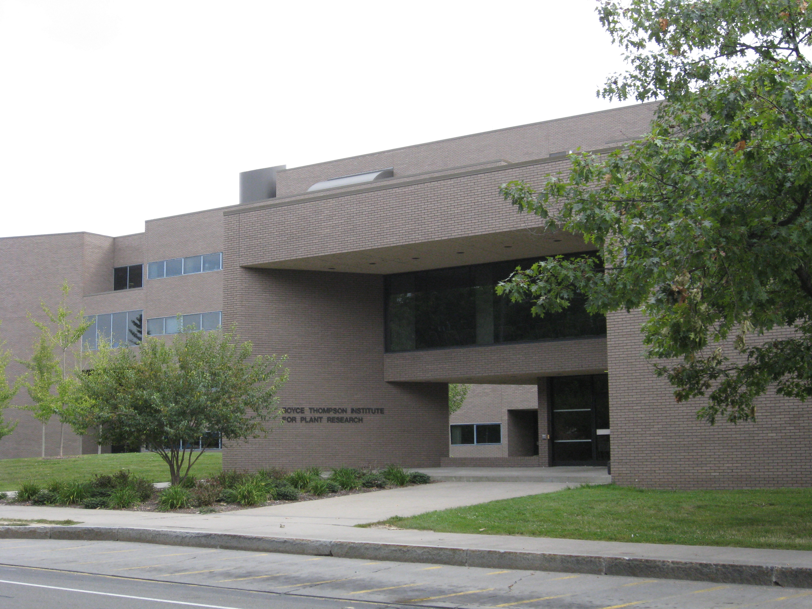 Photograph taken by user. The Boyce Thompson Institute for Plant Research on the Cornell University campus